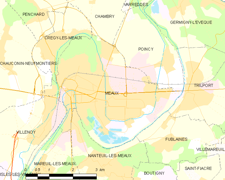 Map of French municipality Meaux